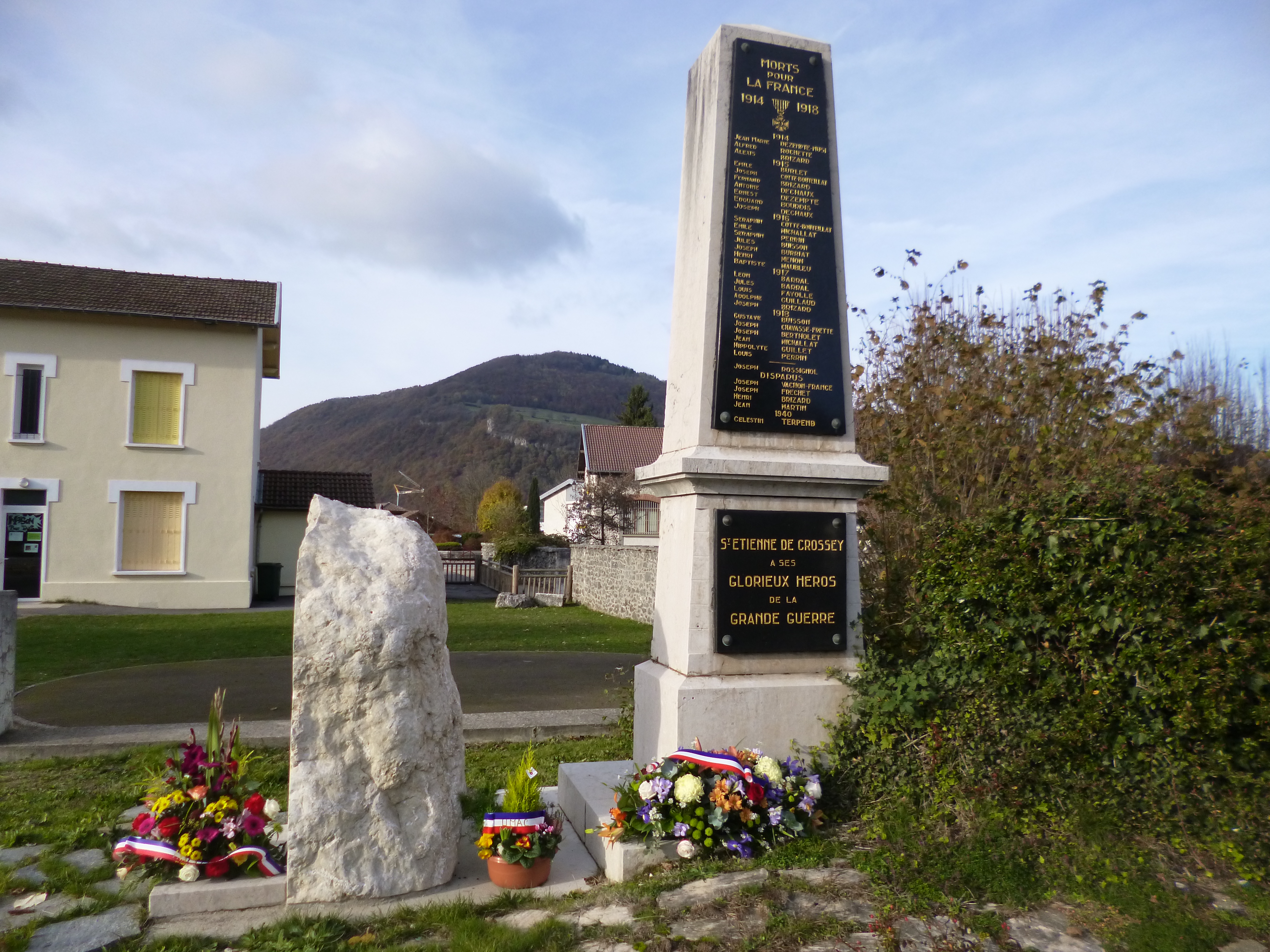 War Memorial (WW1 and WW2) Saint-Etienne-de-Crossey Isère, France November 2016